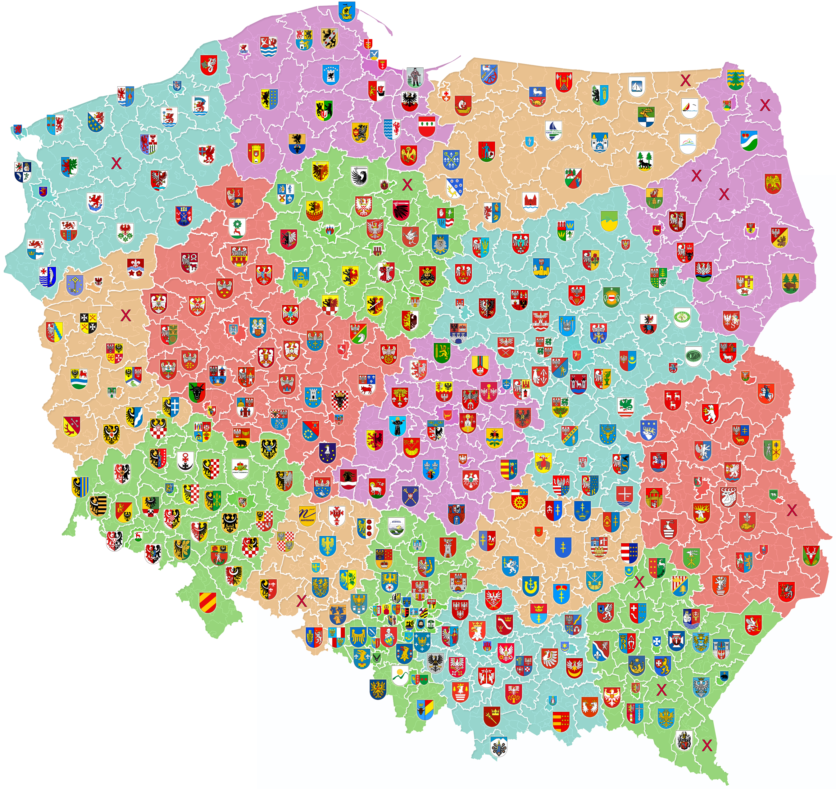 Map of Poland displaying coats of arms of counties (powiats)